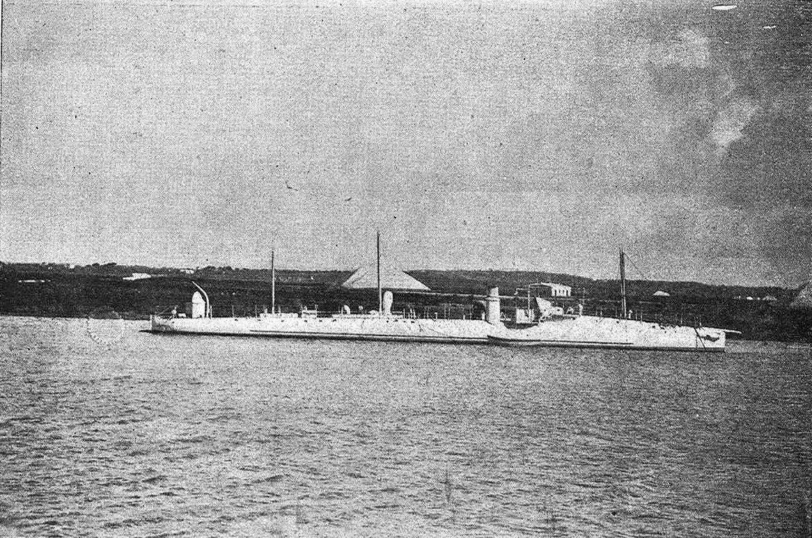 Black & white photography of the Spanish torpedo boat BARCELO (original caption: "el torpedero BARCELÓ") published in page 20 of La revista moderna Año II Número 64 - 1898 mayo 21 (The modern review - 2nd Year - Issue #64 - May 21st, 1898) from Madrid. Photographies are credited to Lebrón from the Cádiz harbour. 20 days before this photography was published the Spanish navy vessel was captured by US Army disembarked troops at Cavite, Philippines and used by the US Navy under the following designations: Barcelo (tug), USS Barcelo (YT-105) and later Barcelo-I. This torpedo is converted to Yard Tug in 1920 and scrapped in 1929. Ship was named Barcelo in honor of XVIII century Spanish admiral Don Antonio Barcelo.